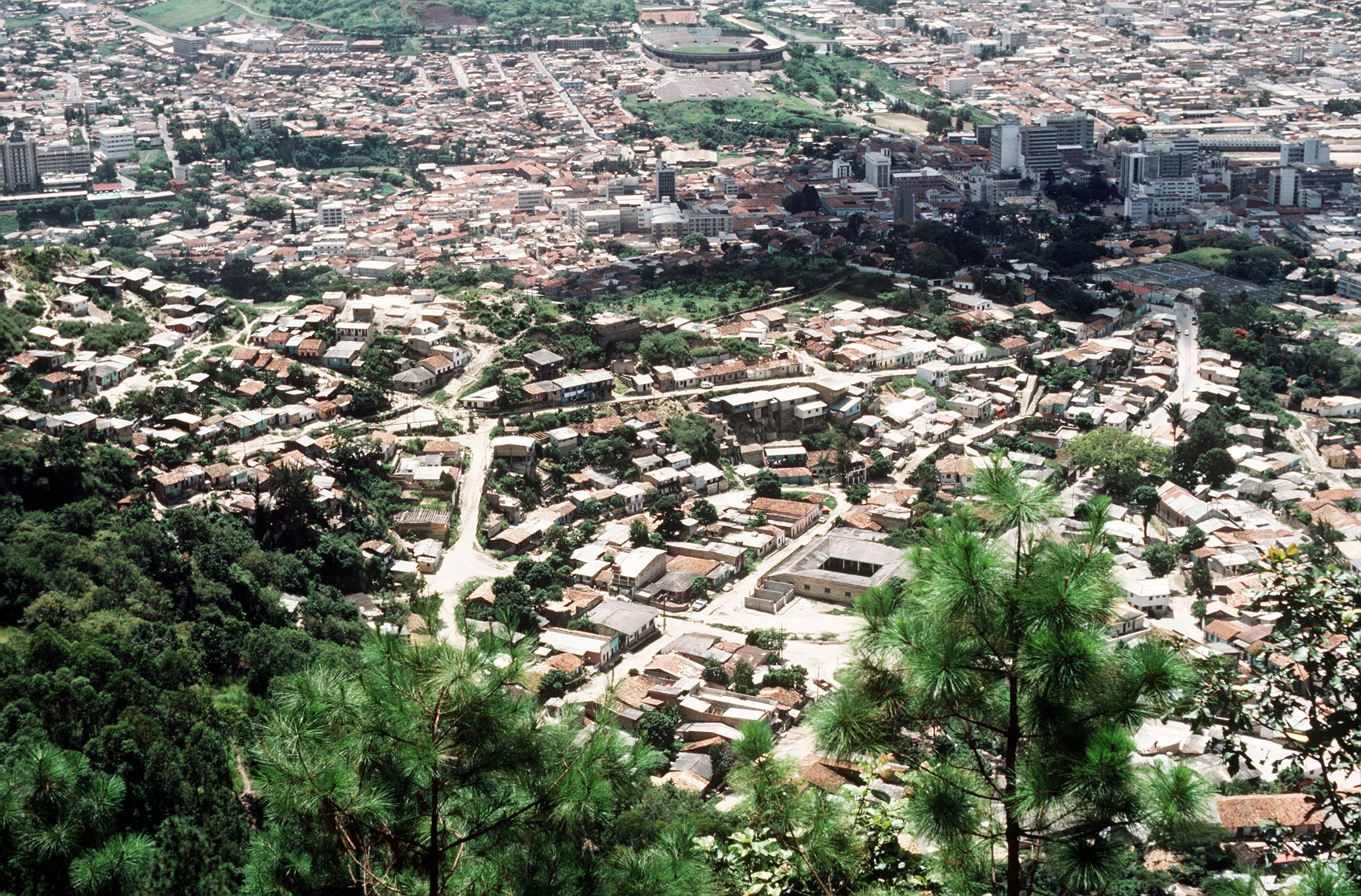 An aerial view of Tegucigalpa, the capital city of Honduras.